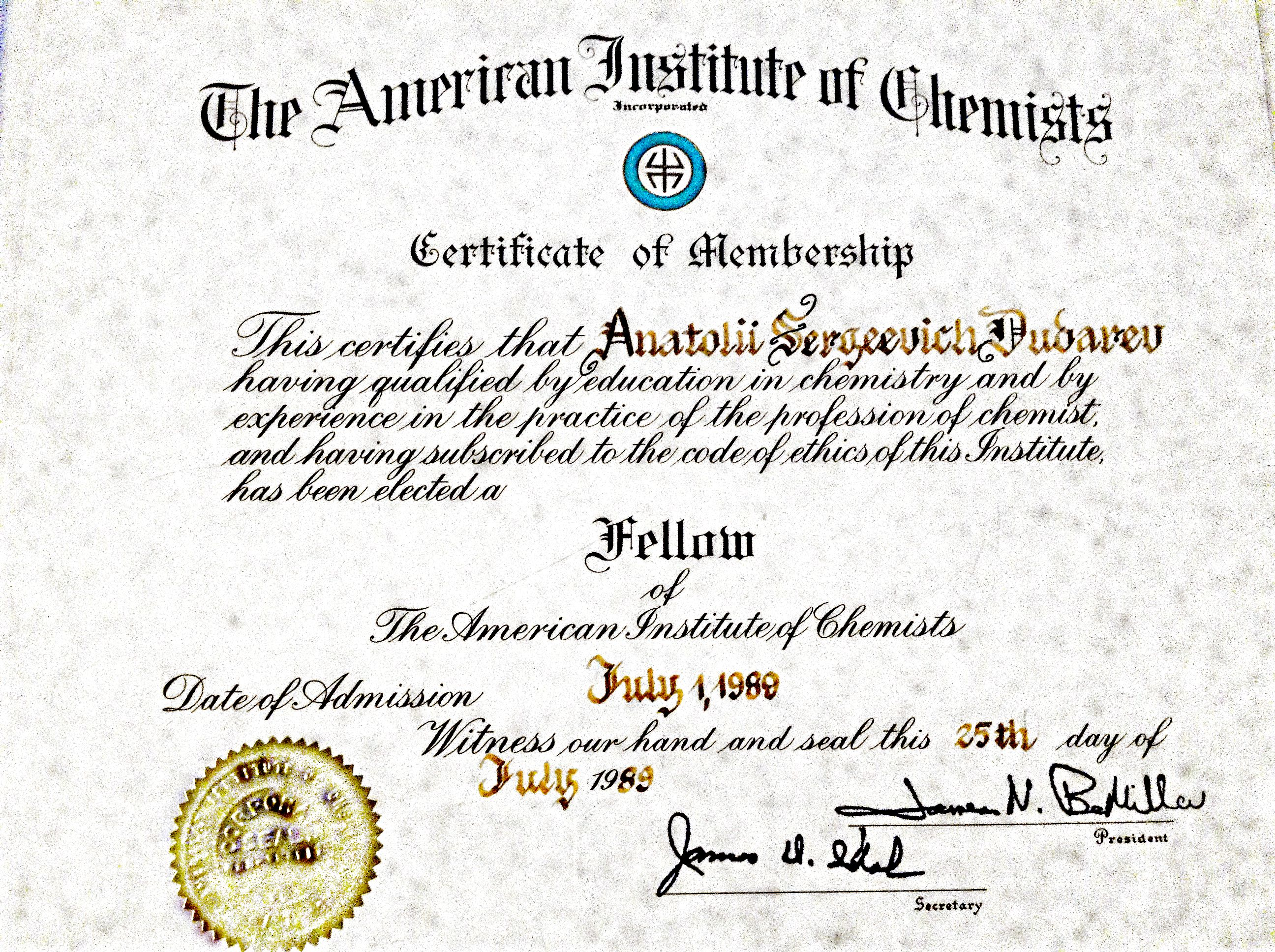 Diplom Dudyreva a.s.